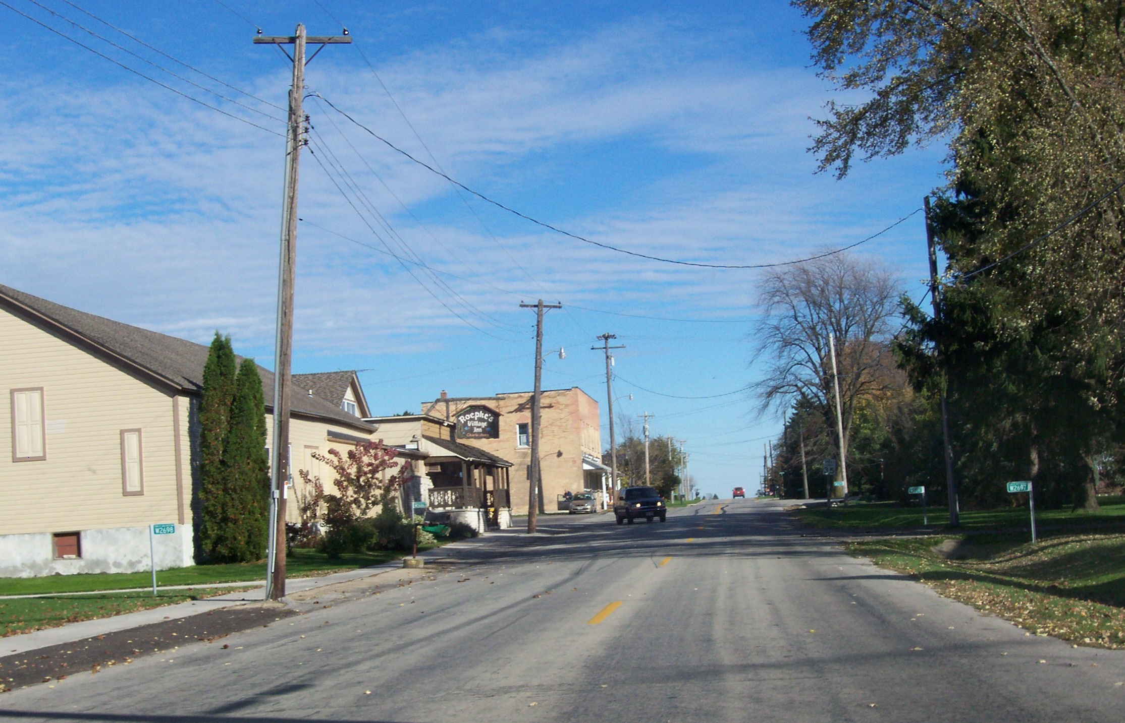 Looking east at downtown Charlesburg, Wisconsin on St. Charles Road.